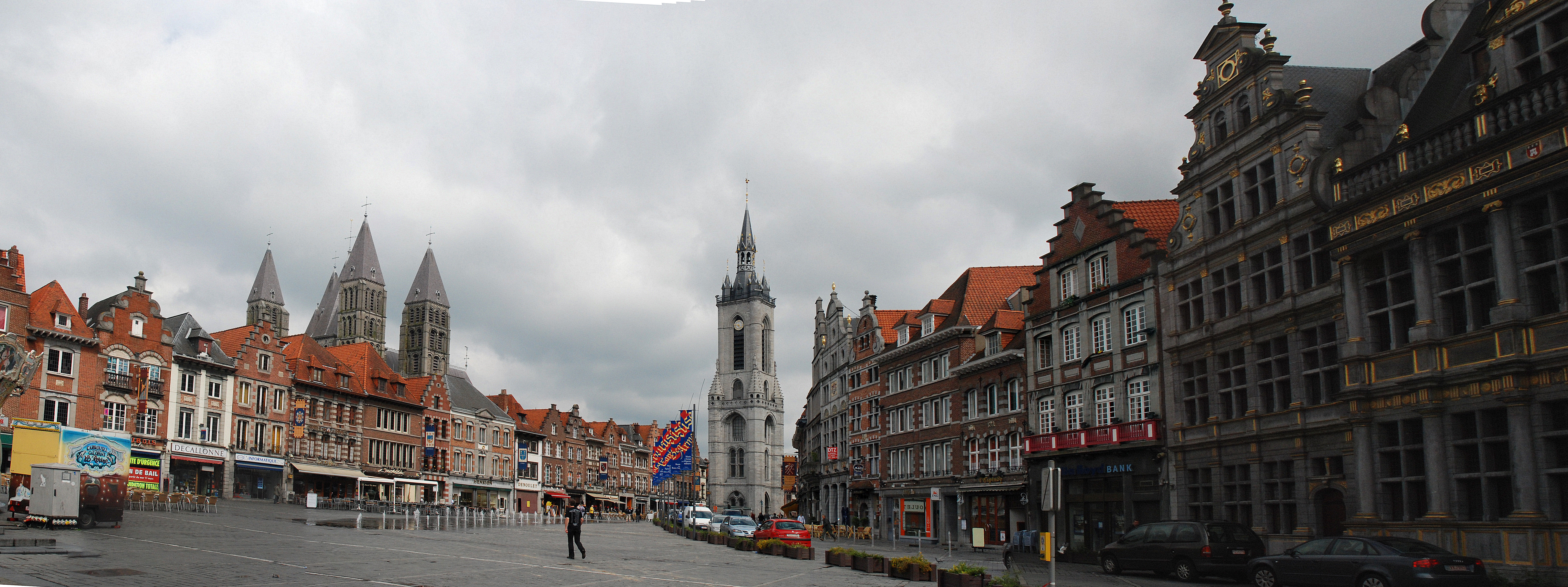 The Belfry in Doornik, Belgium